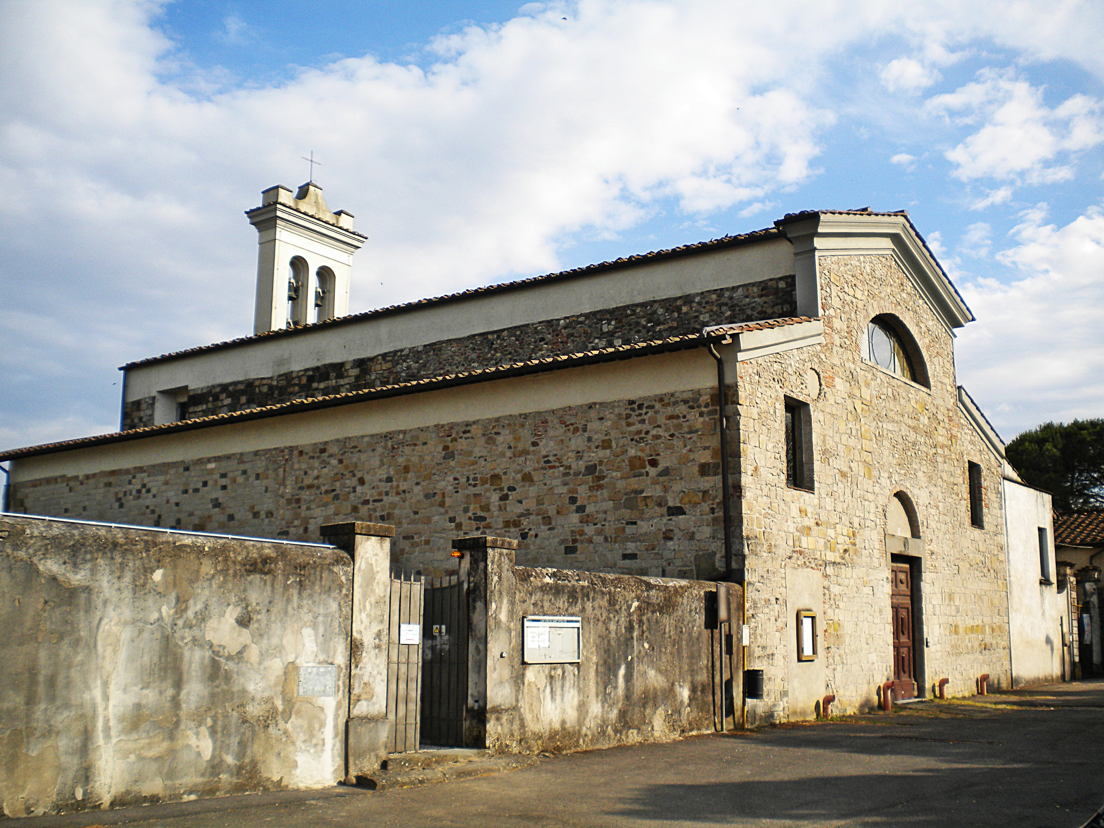 facade